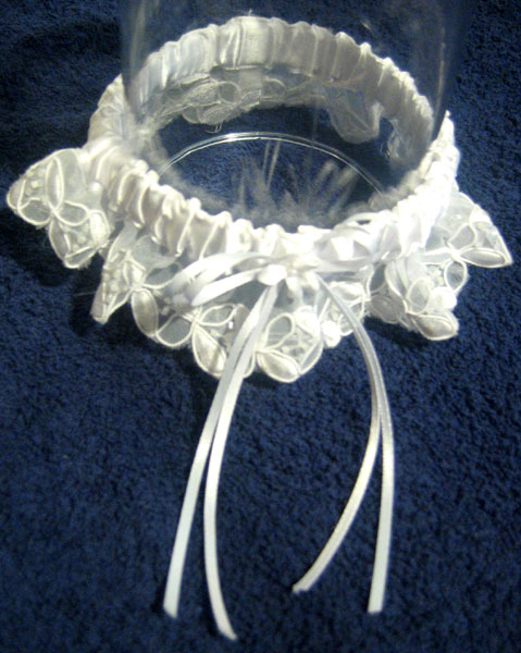 White Wedding garter in plastic holder. Taken 12/30/2004 by Jeremy Kemp.